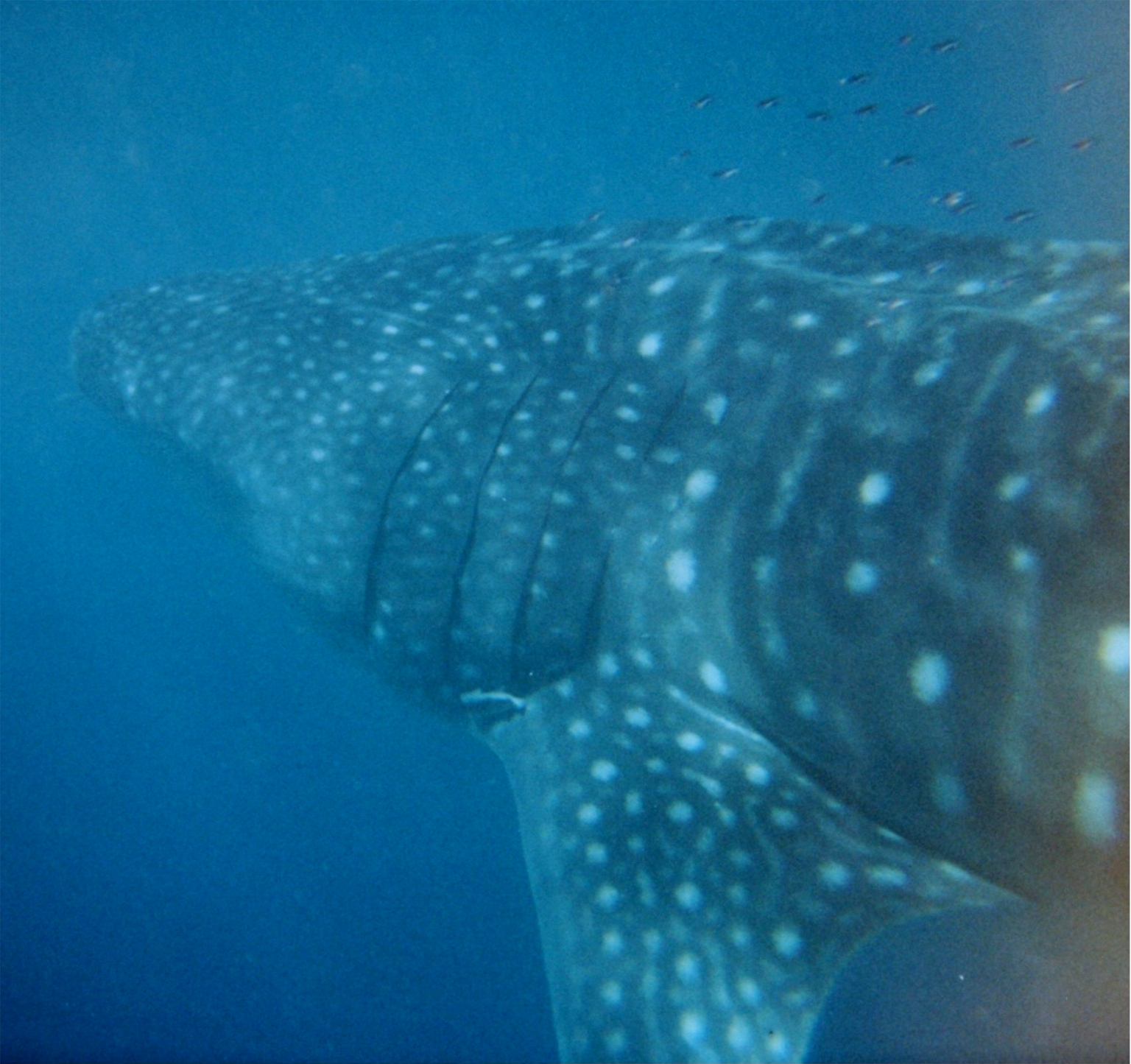 Whale Shark The picture was taken at Ningaloo Reef, Indian Ocean of Exmouth, Western Australia by Brocken Inaglory